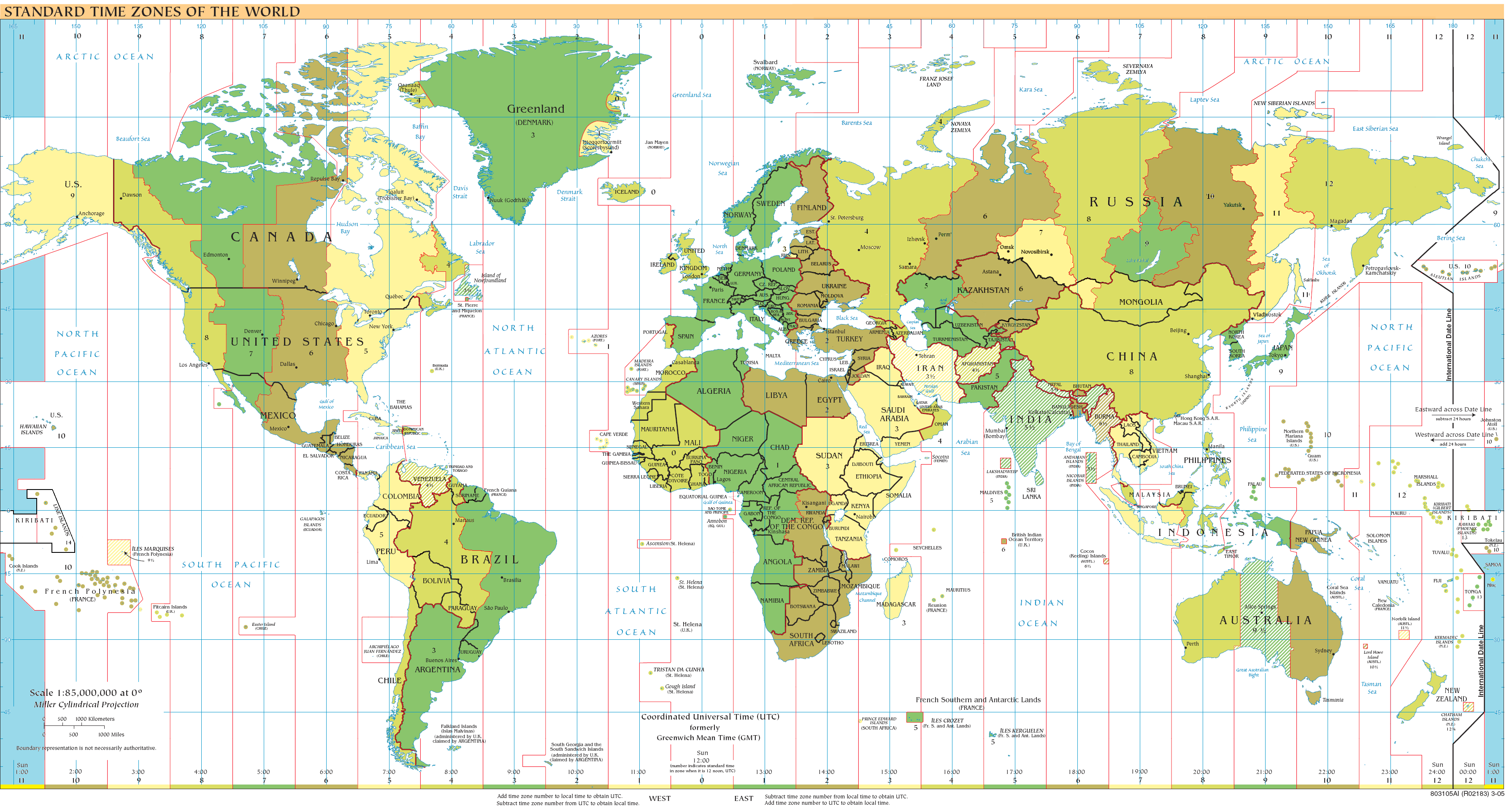 Copy of Timezones2008.png edited to highlight UTC-11 Light Blue - UTC-11 Sea Area Yellow - UTC-11 Land Area (All year round)